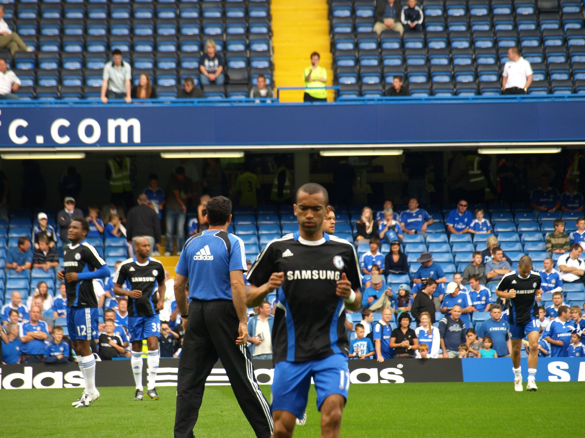 Bosingwa training with Chelsea.